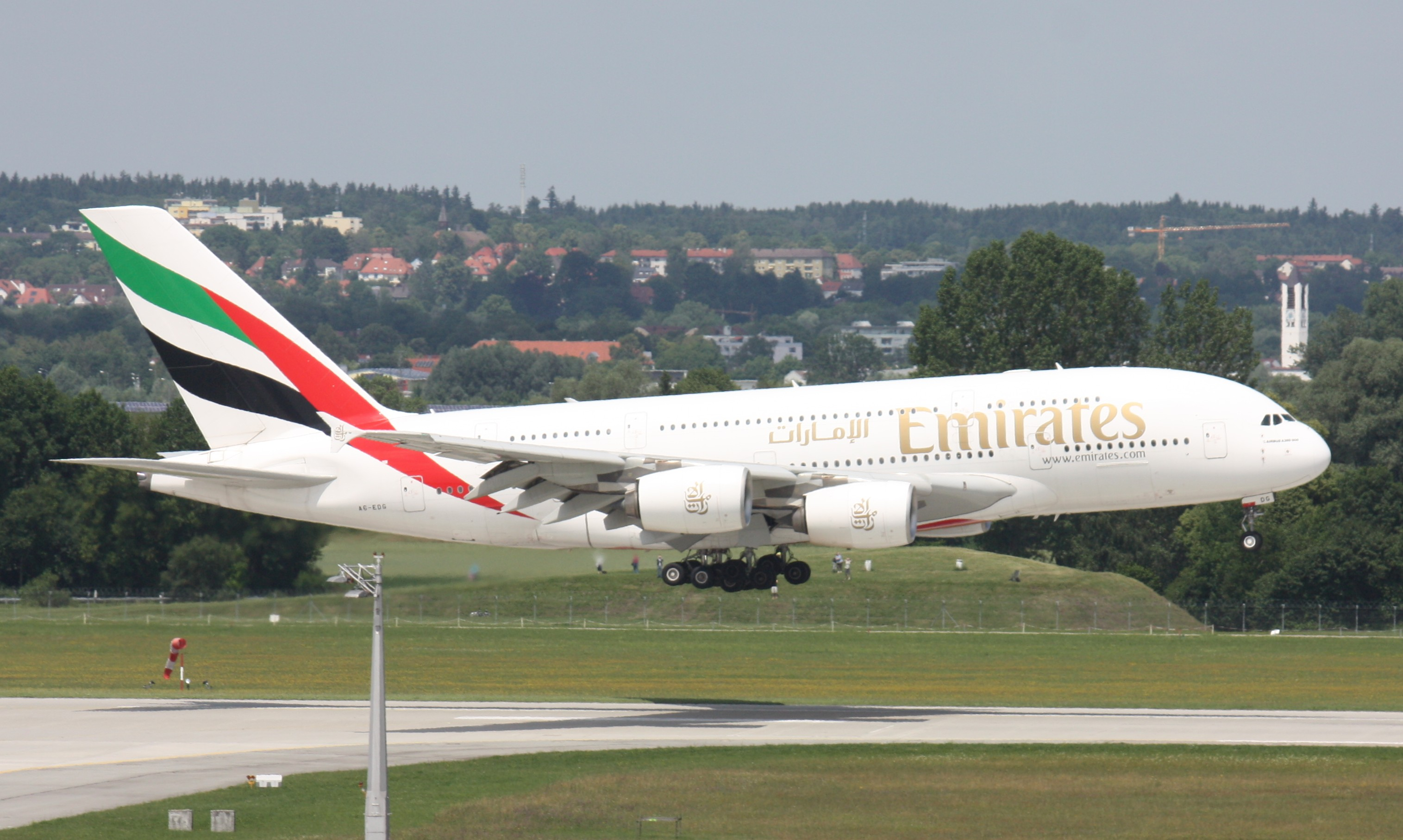 Emirates A380 landing in Munich Airport